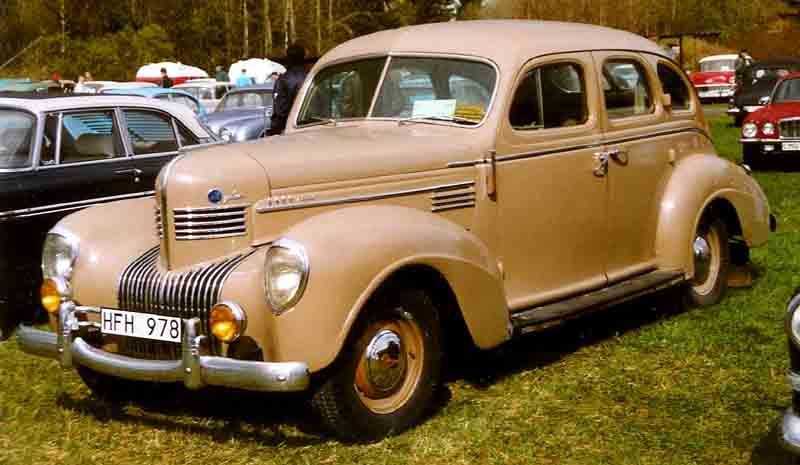 Chrysler Royal Series C-22 4-Door Sedan 1939